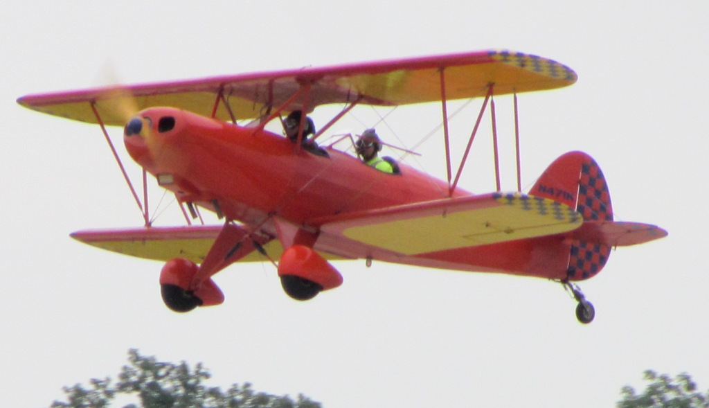 Hatz CB-1 takeoff